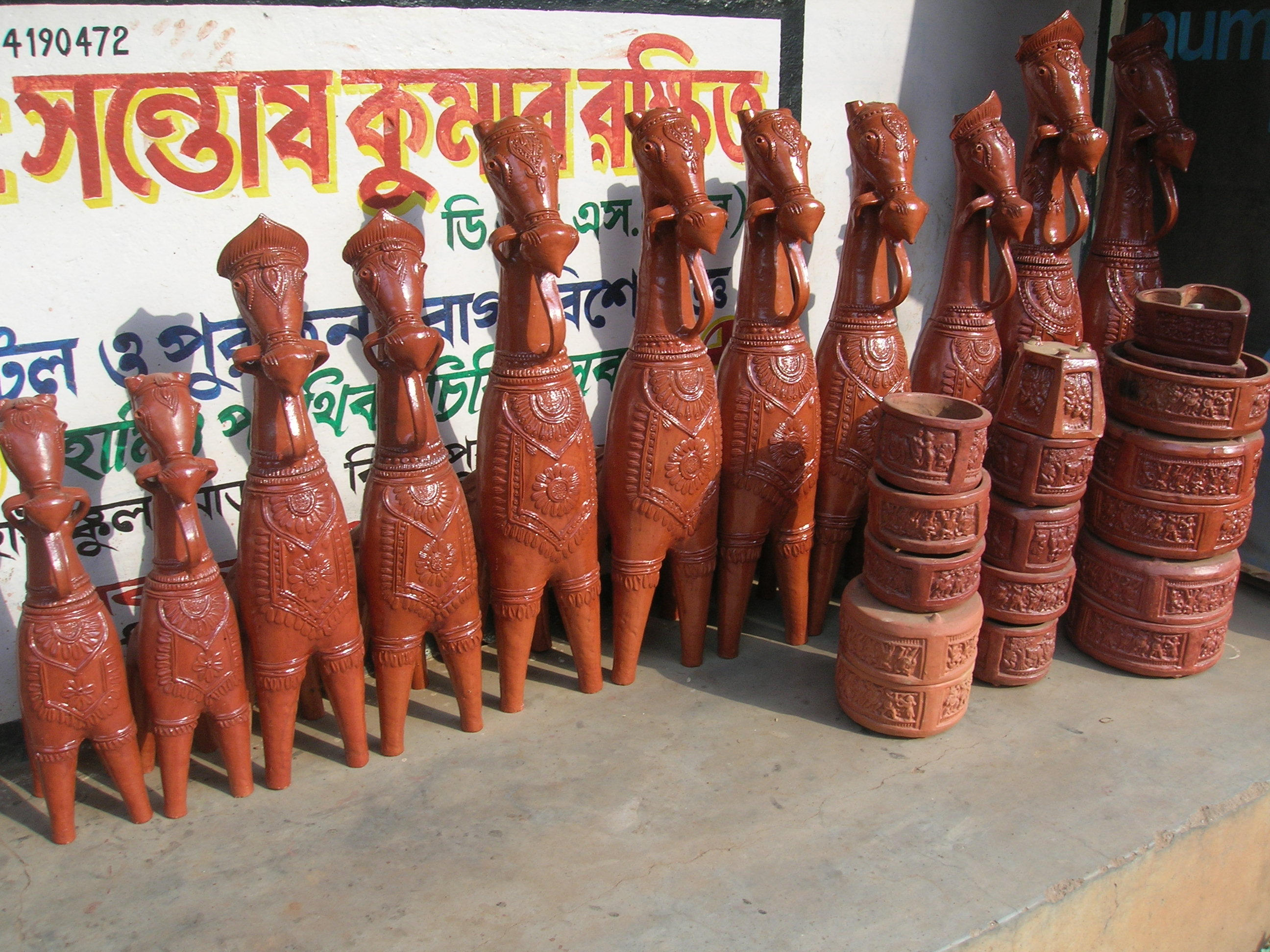 Bankura Horses at a shop on Display, Bishnupur, Bankura Dist., West Bengal, India